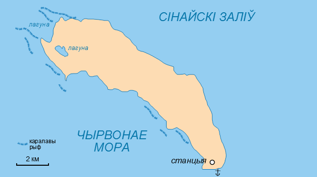 Map of the Shadwan Island